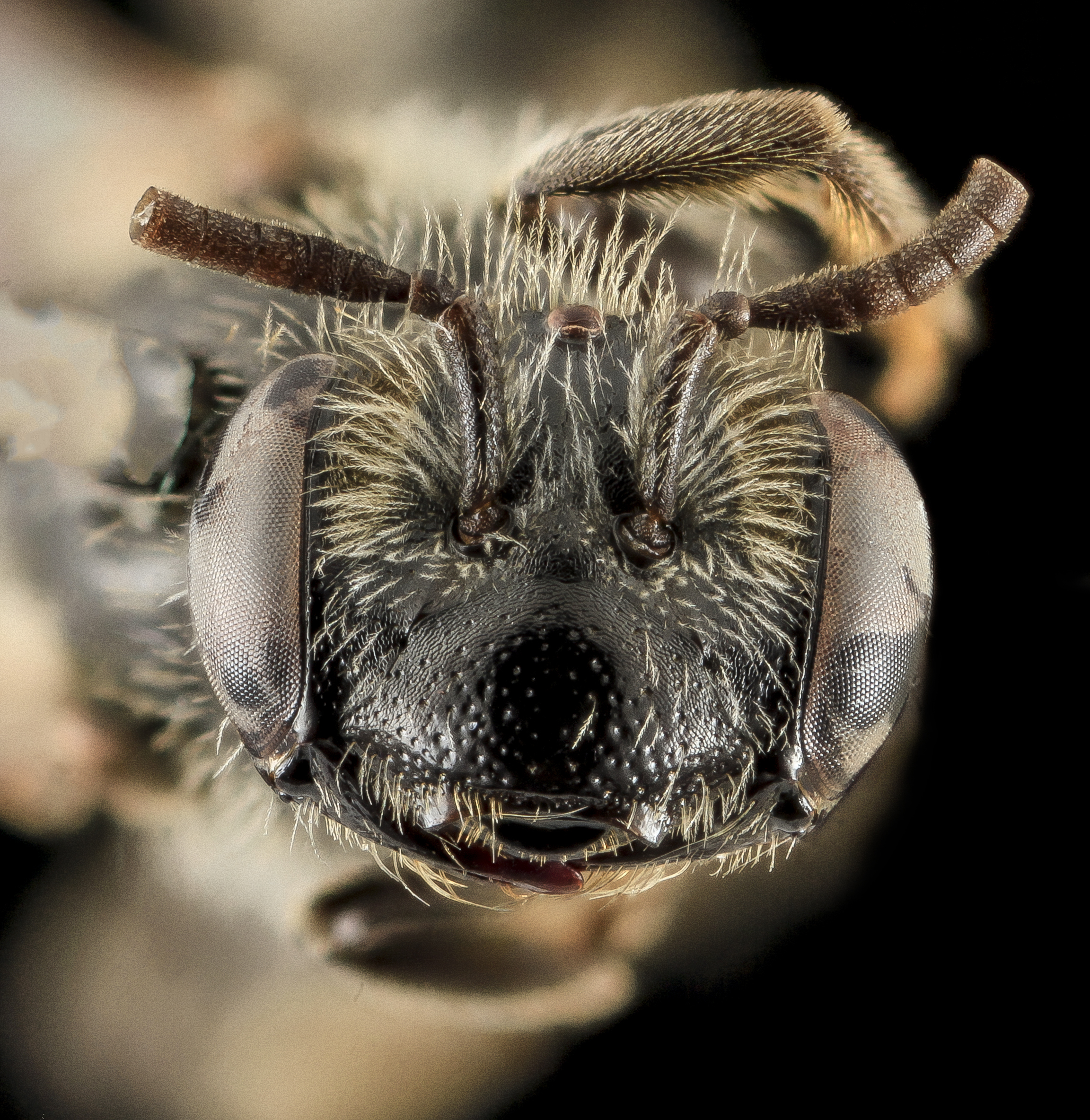 A little tiny Andrena bee collected in the sandhills of North Carolina by Heather Campbell. Not much is know about this species, other than it appears to be uncommon and spotty in occurrence and runs from the West to the East coast with a fair amount of variation, which usually indicates that other species may be hidden within this one. So much work to do. Photograph by Brooke Alexander. Canon Mark II 5D, Zerene Stacker, 65mm Canon MP-E 1-5X macro lens, Twin Macro Flash, F5.0, ISO 100, Shutter Speed 200, link to a .pdf of our set up is located in our profile